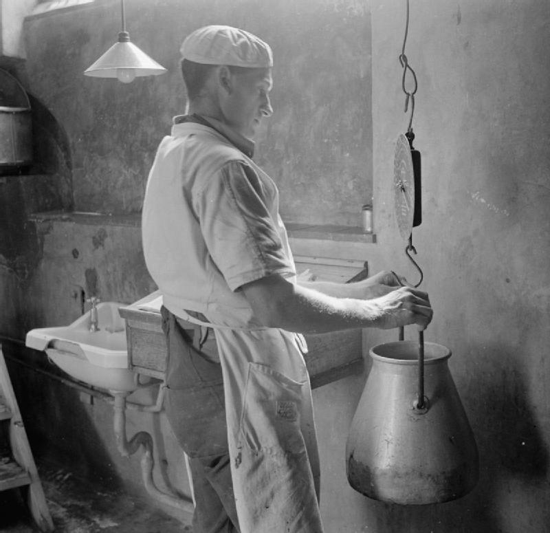 Parsonage Farm- Dairy Farming in Devon, England, 1942 A 'cow man' or dairy worker weighs the milk yield of Daisy the cow at Old Parsonage Farm, Dartington. At this farm, the cattle are rationed according to the amount of milk they produce, so, as stated in the original caption "Her rations and her very existence depend on how much she gives".